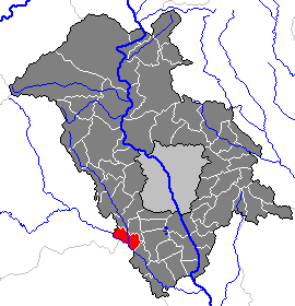 This map shows the area of the Gemeinde (municipality) Lieboch in the Bezirk (district) Graz-Umgebung, Styria, Austria.